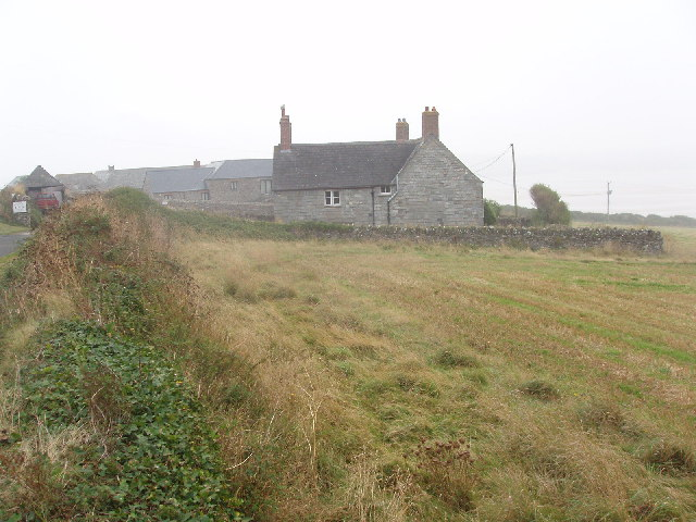 Lellizzick. This is a farm on Stepper Point